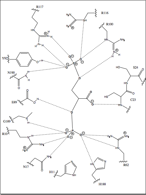 1-3 BPG in Active site, showing coordination